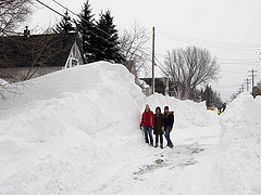 "Lake effect" blizzard, Duluth, Minnesota, December 4, 2007